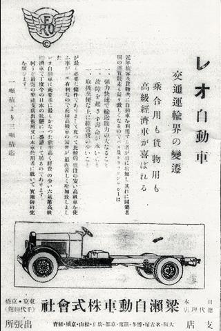 "Reo ad by Yanase motors in Japan from the books published in the 1929 "